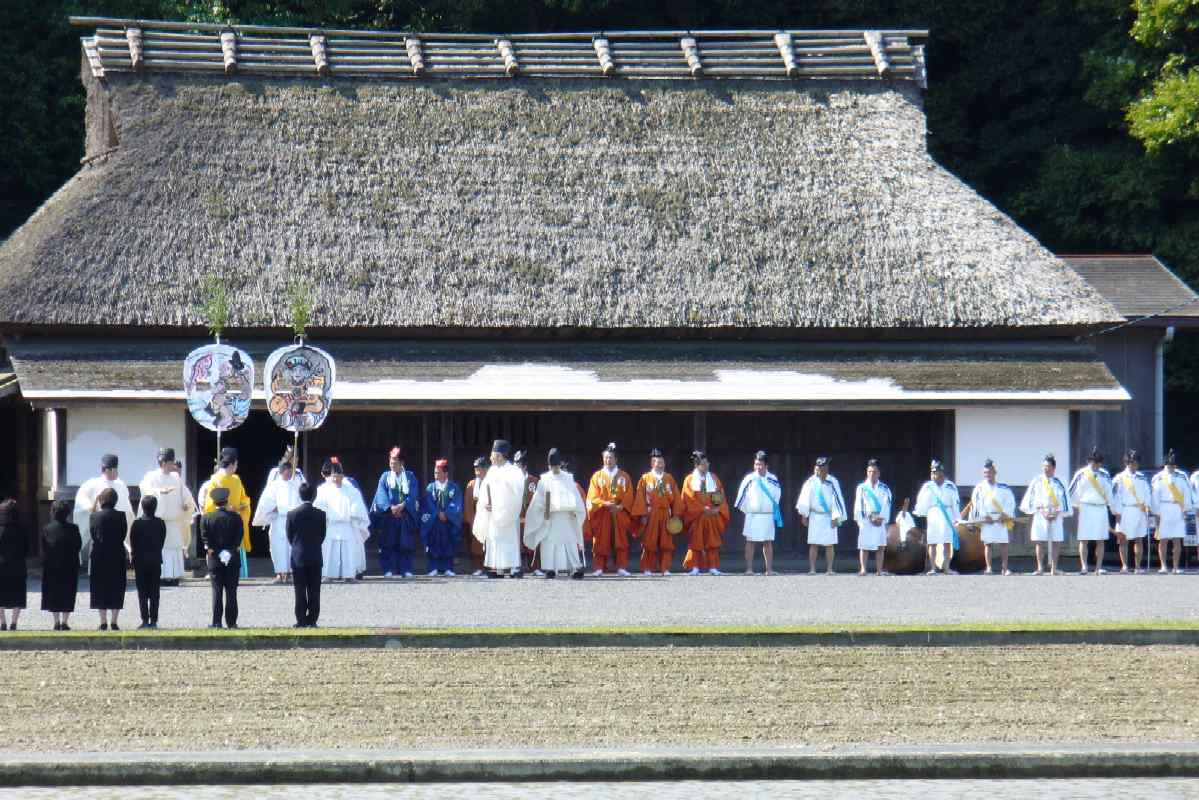 Shinden otaue hajime, rice planting at Jingu shinden